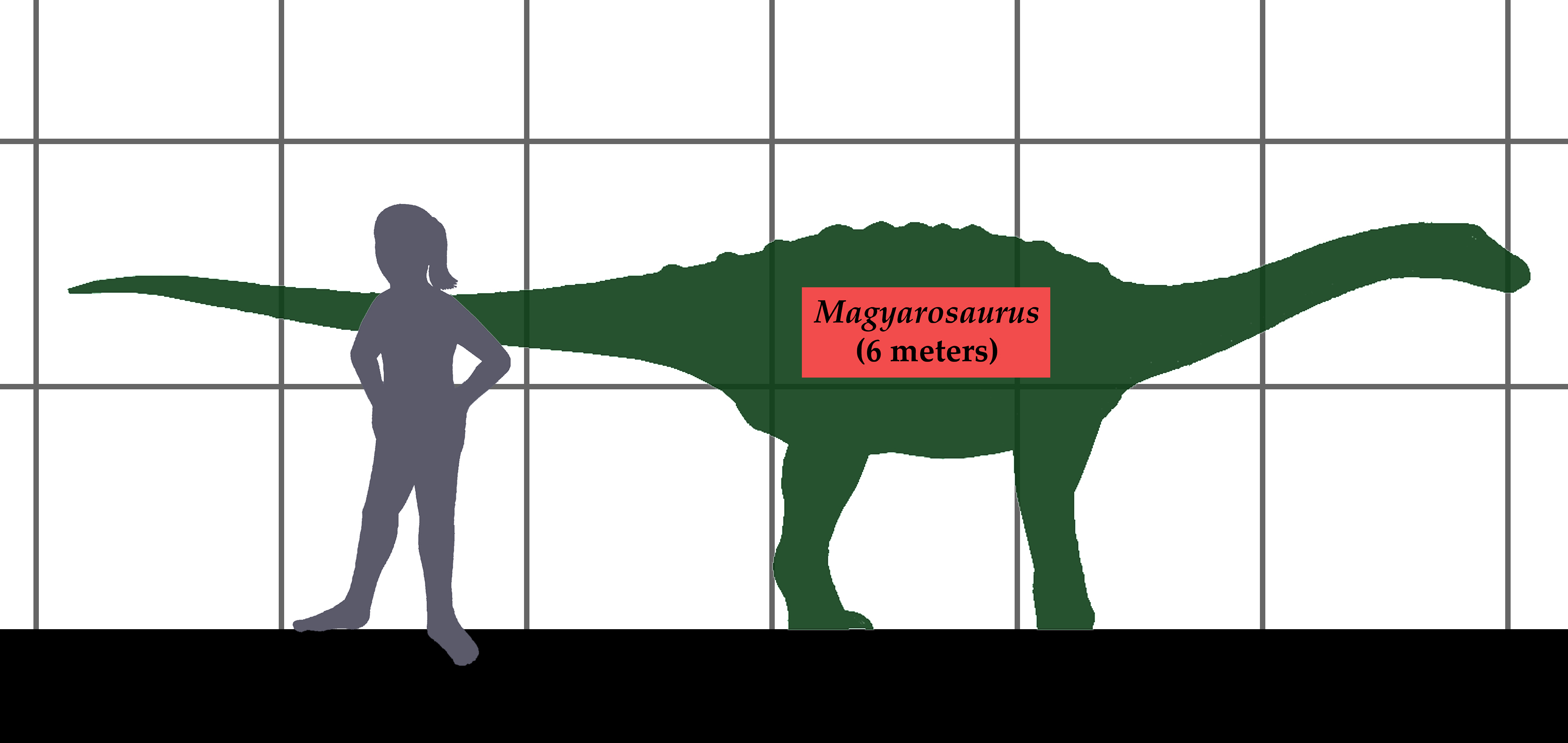 Sizecomparison between the sauropod dinosaur Magyarosaurus and a human. Magyarosaurus is one of the smallest sauropods known to science.